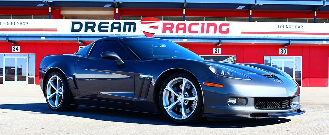 2010 Corvette Grand Sport at Dream Racing in Las Vegas